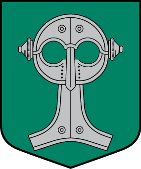 Coat of arms of Ķeipene parish, Latvia. Blazon “Vert an owl fibula Argent”